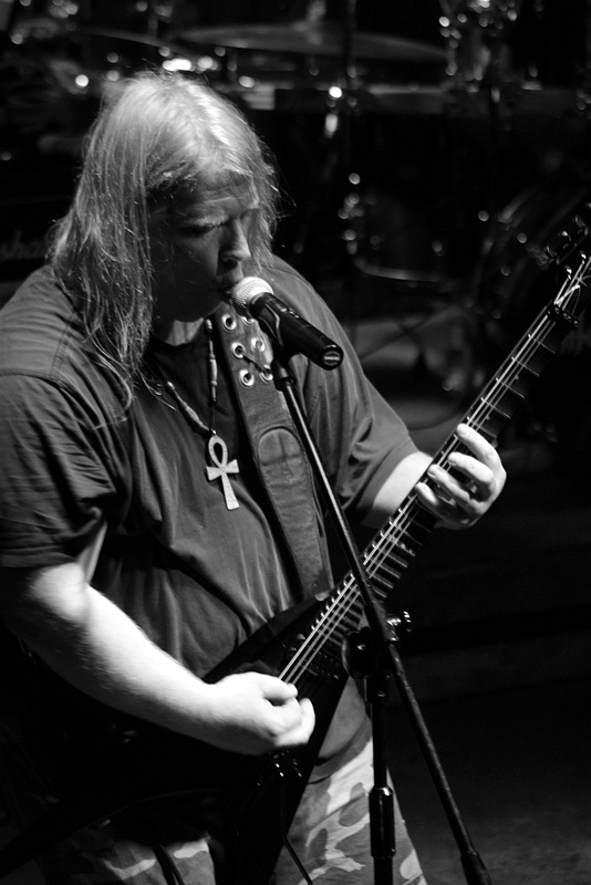 Katowice, Mega Club, 20.01.2011